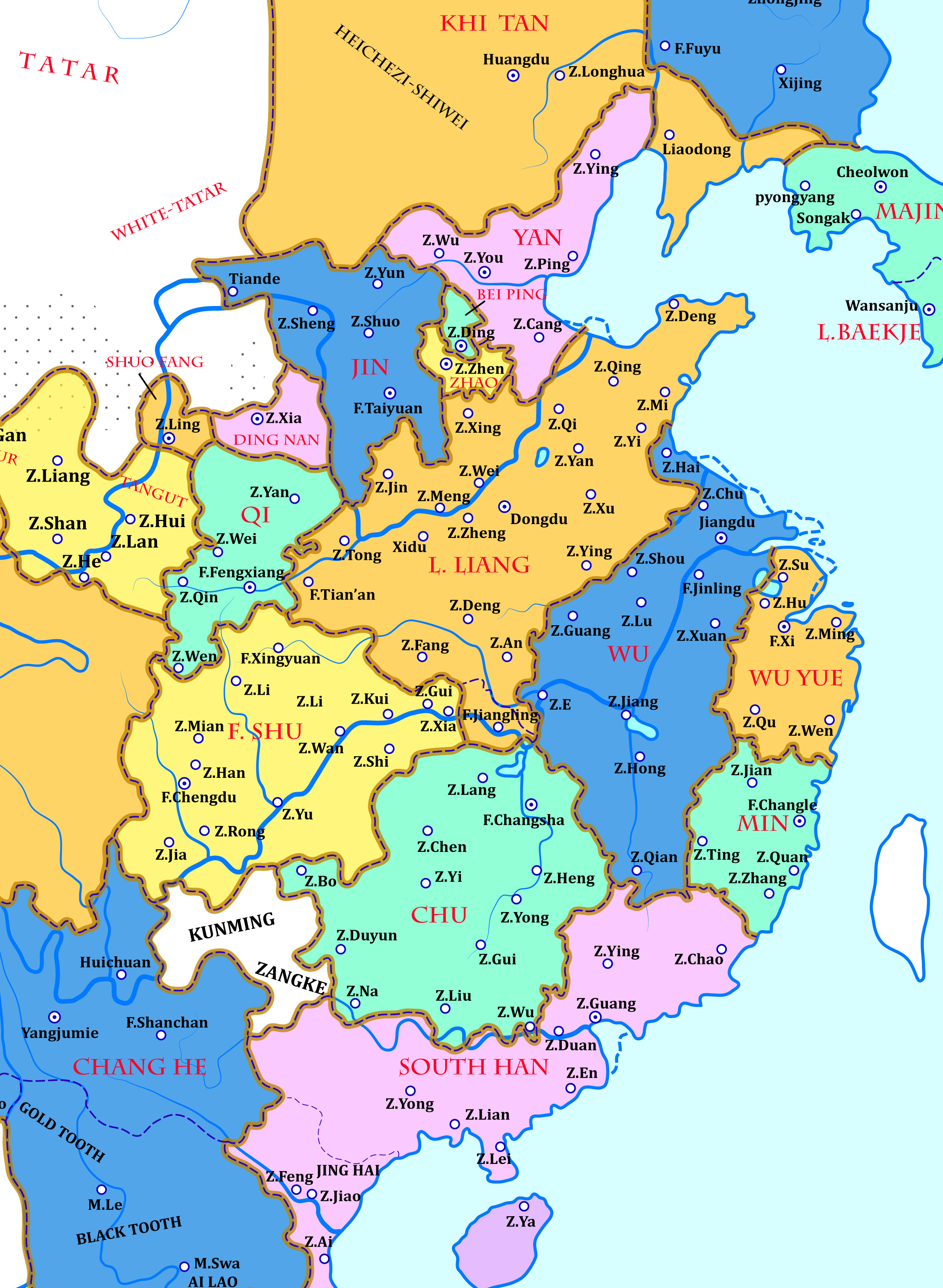 908.AD